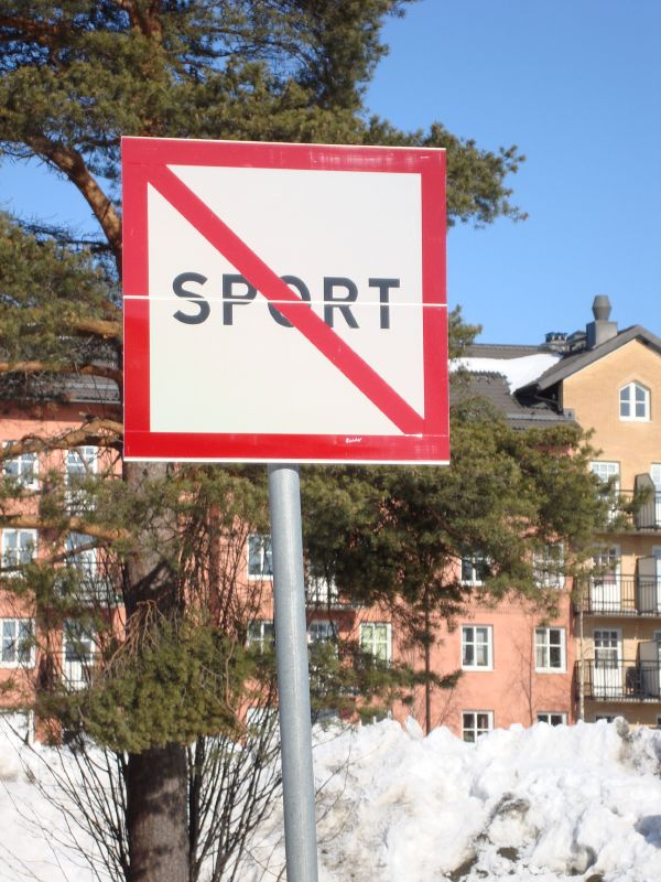 Umeå sculpture park sign - no sport we're artists? by Mikael Richter in Umedalen Sculpture Park/Sweden.